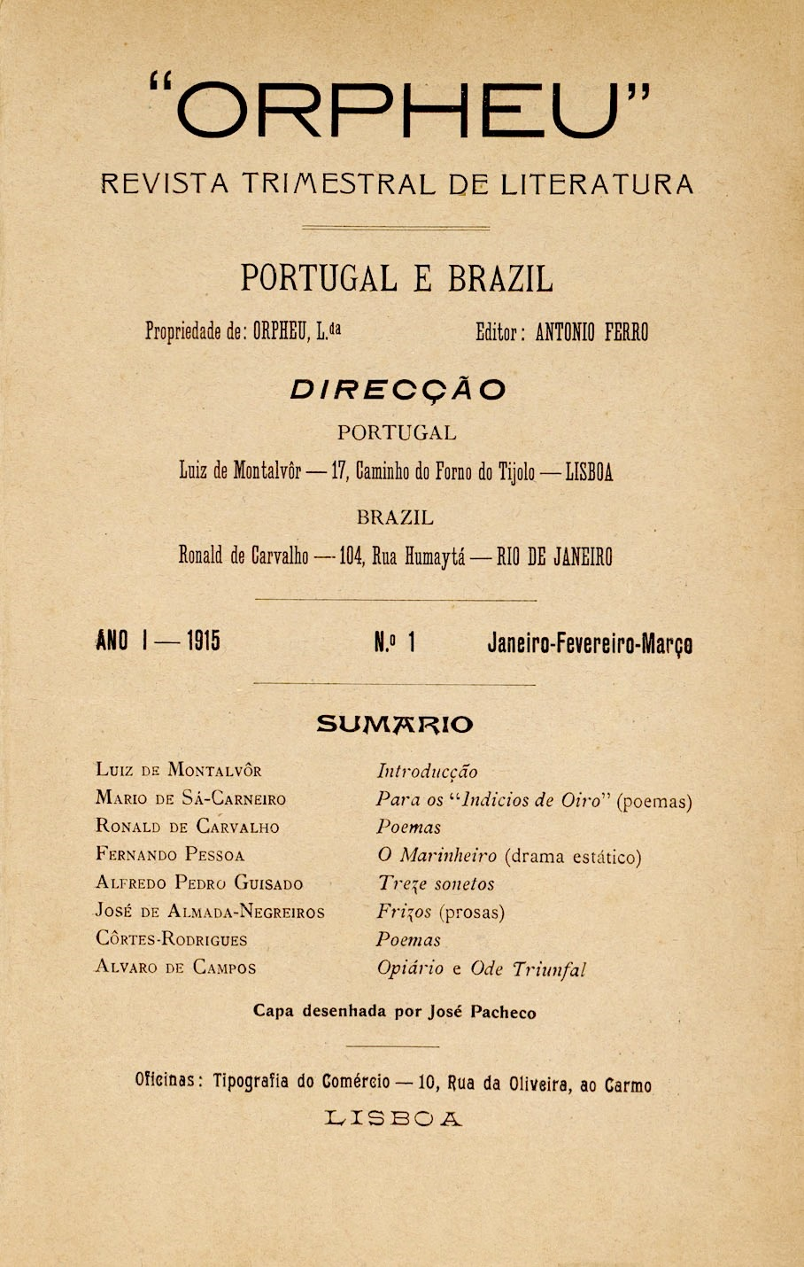 Literary journal Orpheu, Lisbon , Nr. 1 - Jan. Feb. Mar. 1915.